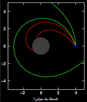 Light sent in different directions being deflected by a nearby massive body.